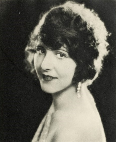 Patsy Ruth Miller